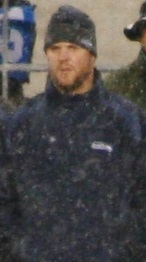 Brett Favre hands off the ball to a Green Bay Packers running back in the November 27, 2006 Monday Night Football game vs Seattle Seahawks at Qwest Field, Seattle, WA.